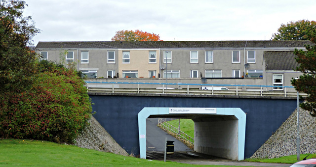 Underpass South Carbrain